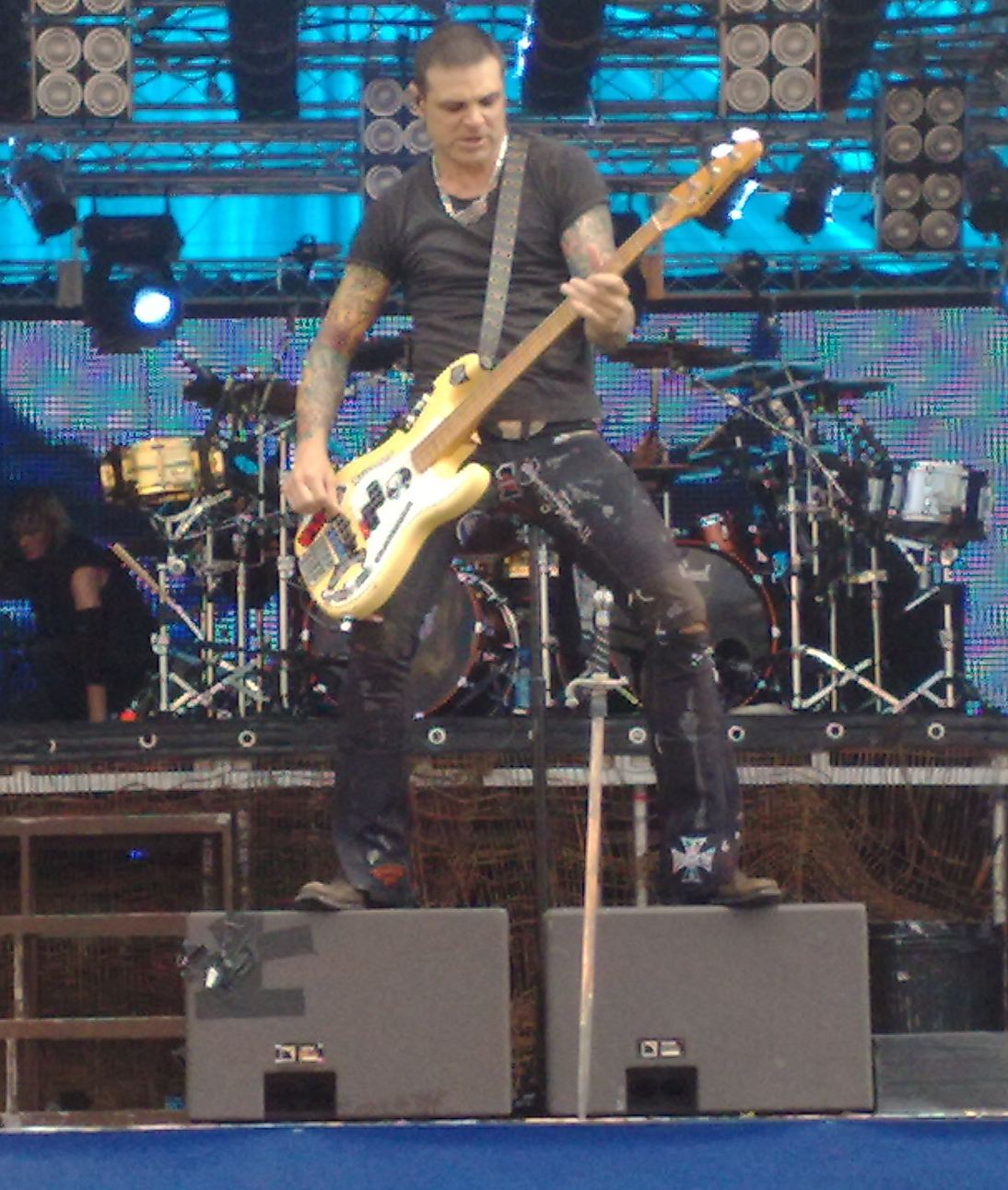 Chuck Garric playing live with Alice Cooper at Vladivostok.